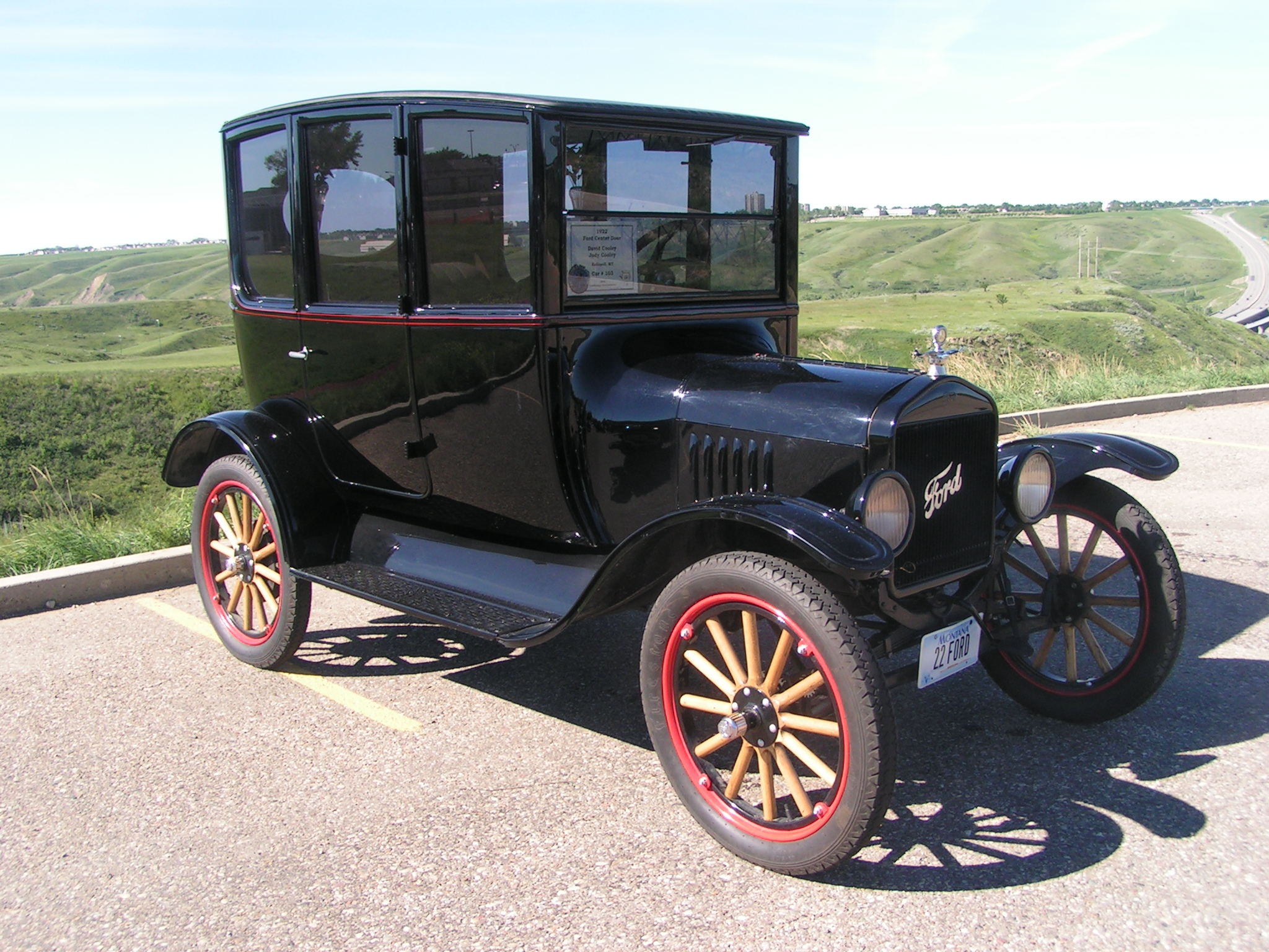 An older picture from the Lethbridge Vintage Show in 2005